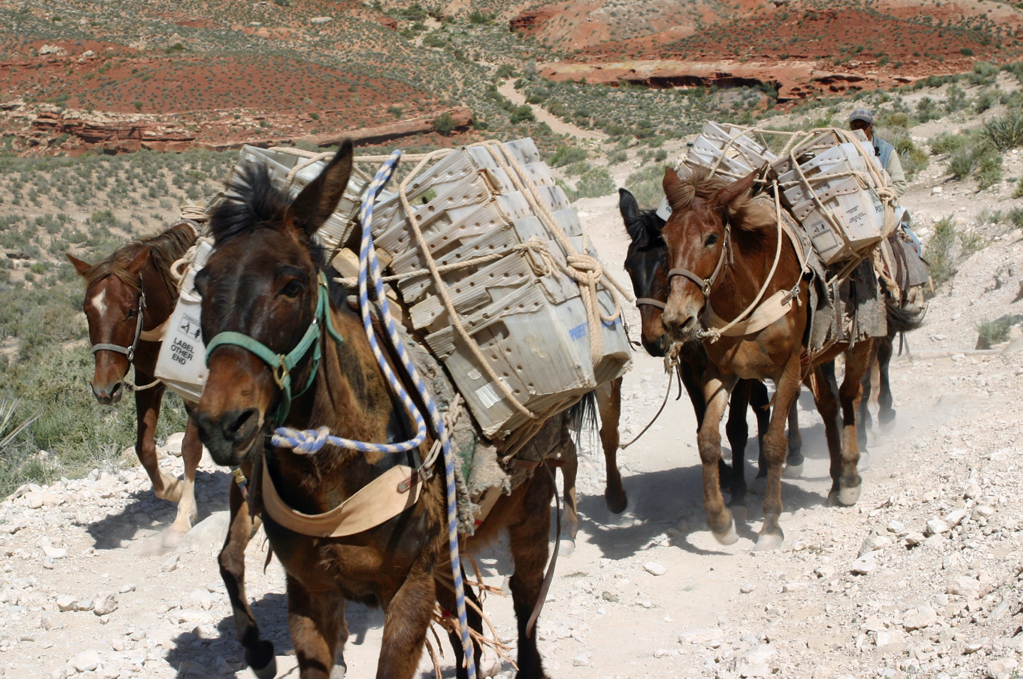 Mules from Supai carrying U.S. Mail containers.